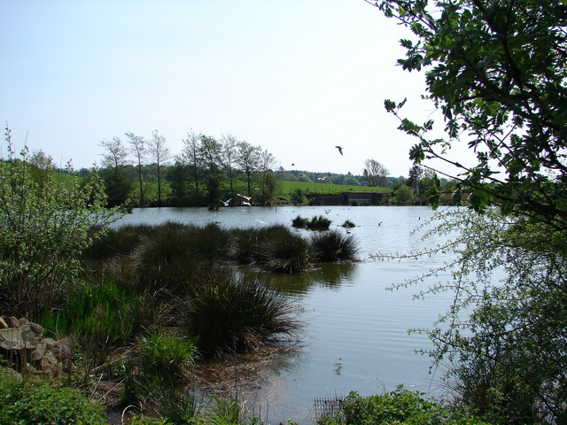 Applegarthtown Wildlife Sanctuary Former wasteland on a Crown Estate, it was flooded to provide a wildlife refuge.